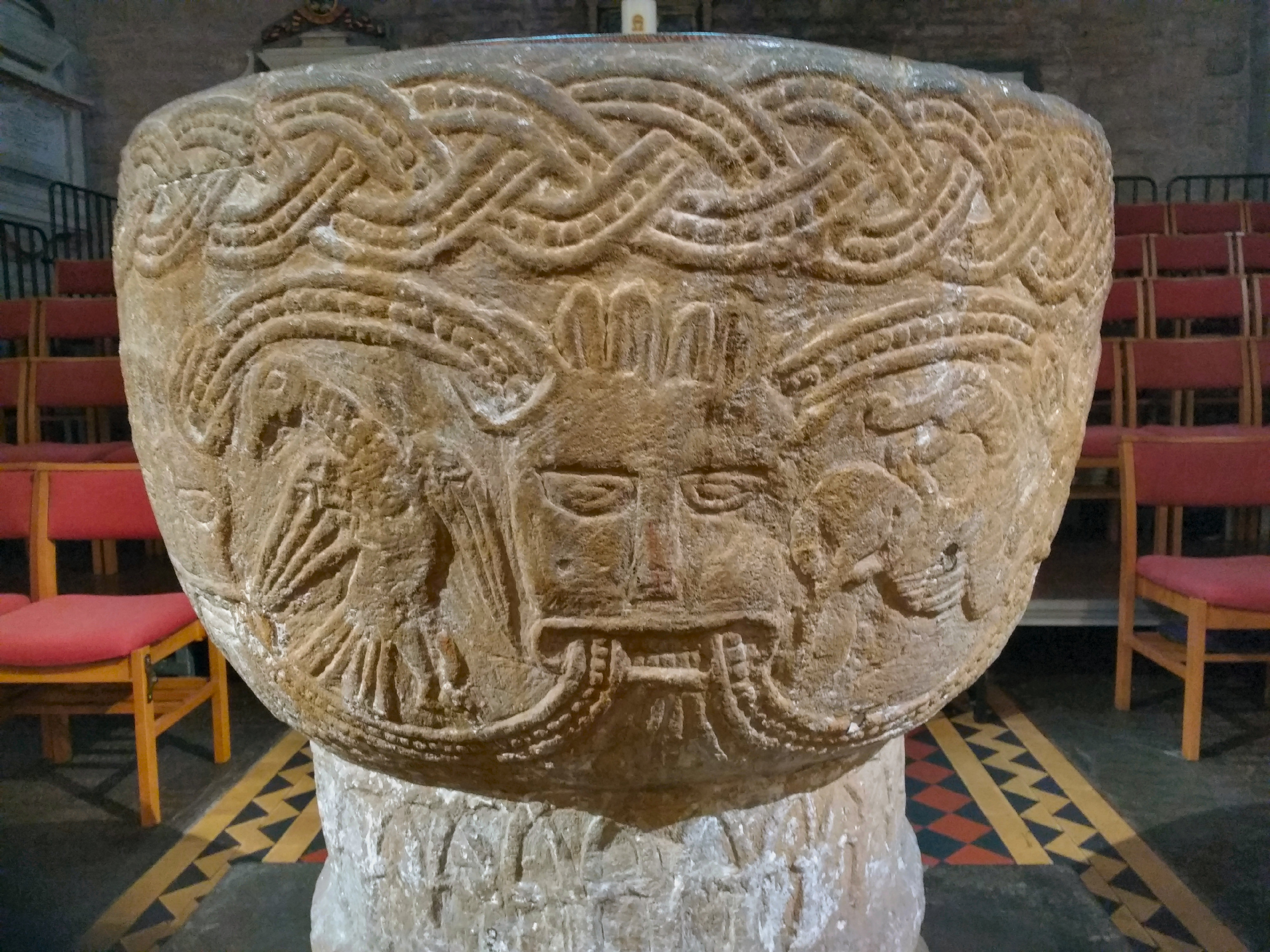 Brecon Cathedral Font with a bird, Green Man and scorpion?